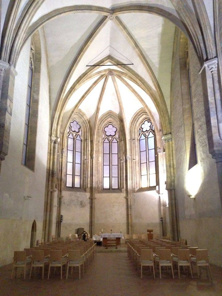 The church of Christ the Savior, Prague, Czech republic (inside of the Monastery of St. Agnes) before the holy mass 3 Dec 2015.